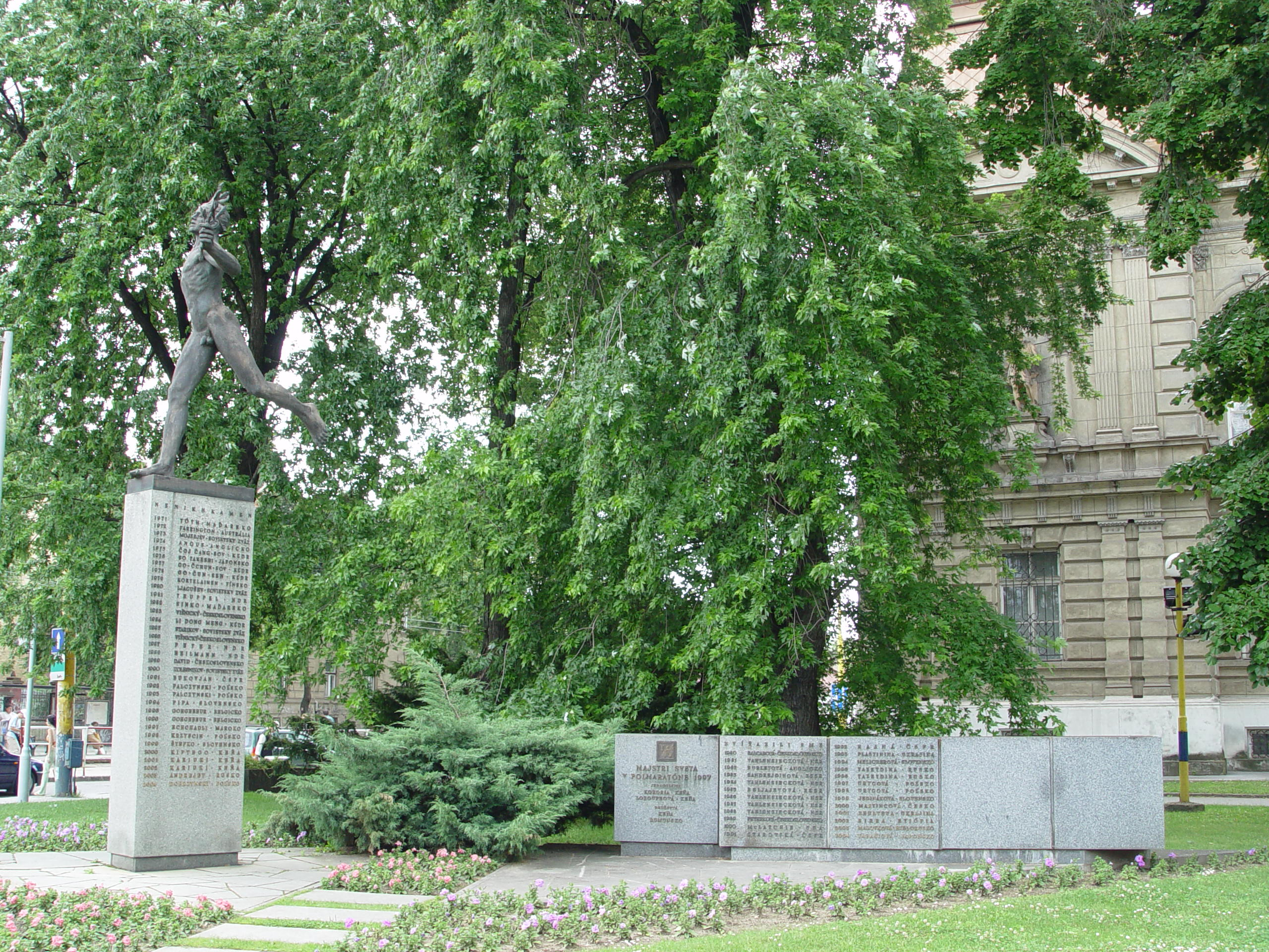 Slovakia, Košice, Memorial of the International Peace Marathon